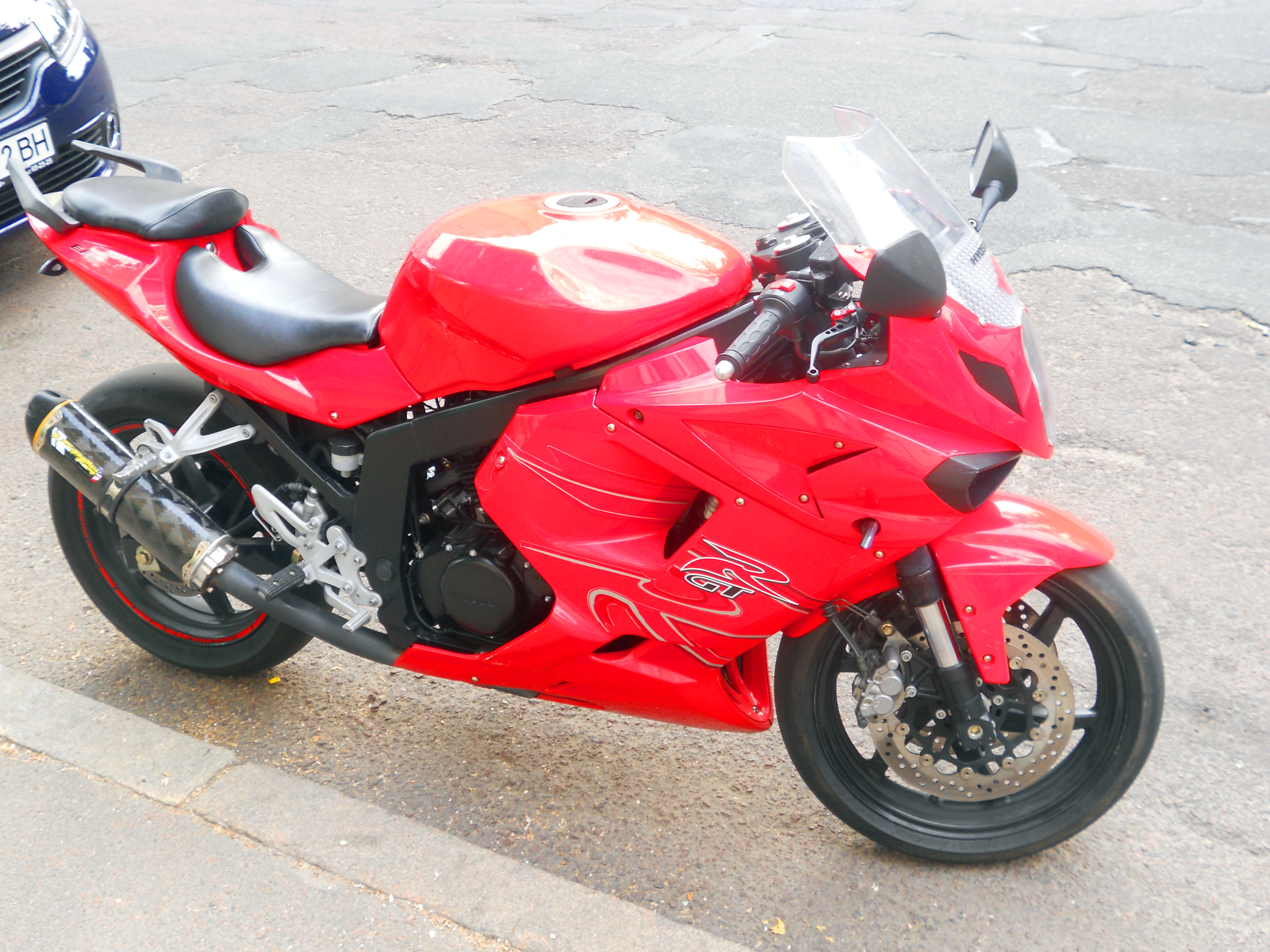 South Korean motorbike Hyosung GTR 250 in Chernihiv, Ukraine, 2015